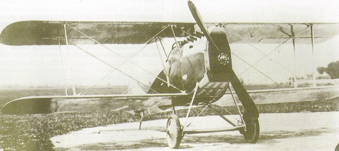 Italian Ansaldo A.1 Balilla fighter